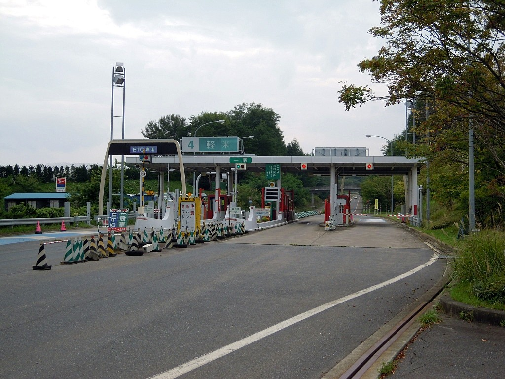 This Interchange, karumai Interchange, is on Hachinohe Expressway, in Karumai Town, Iwate Prefecture, Japan.